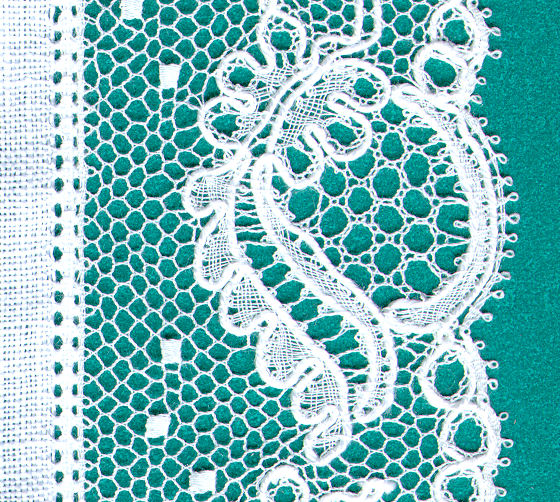 Traditional Tønder lace design, "Jordbærret (Strawberries)". Cotton thread.